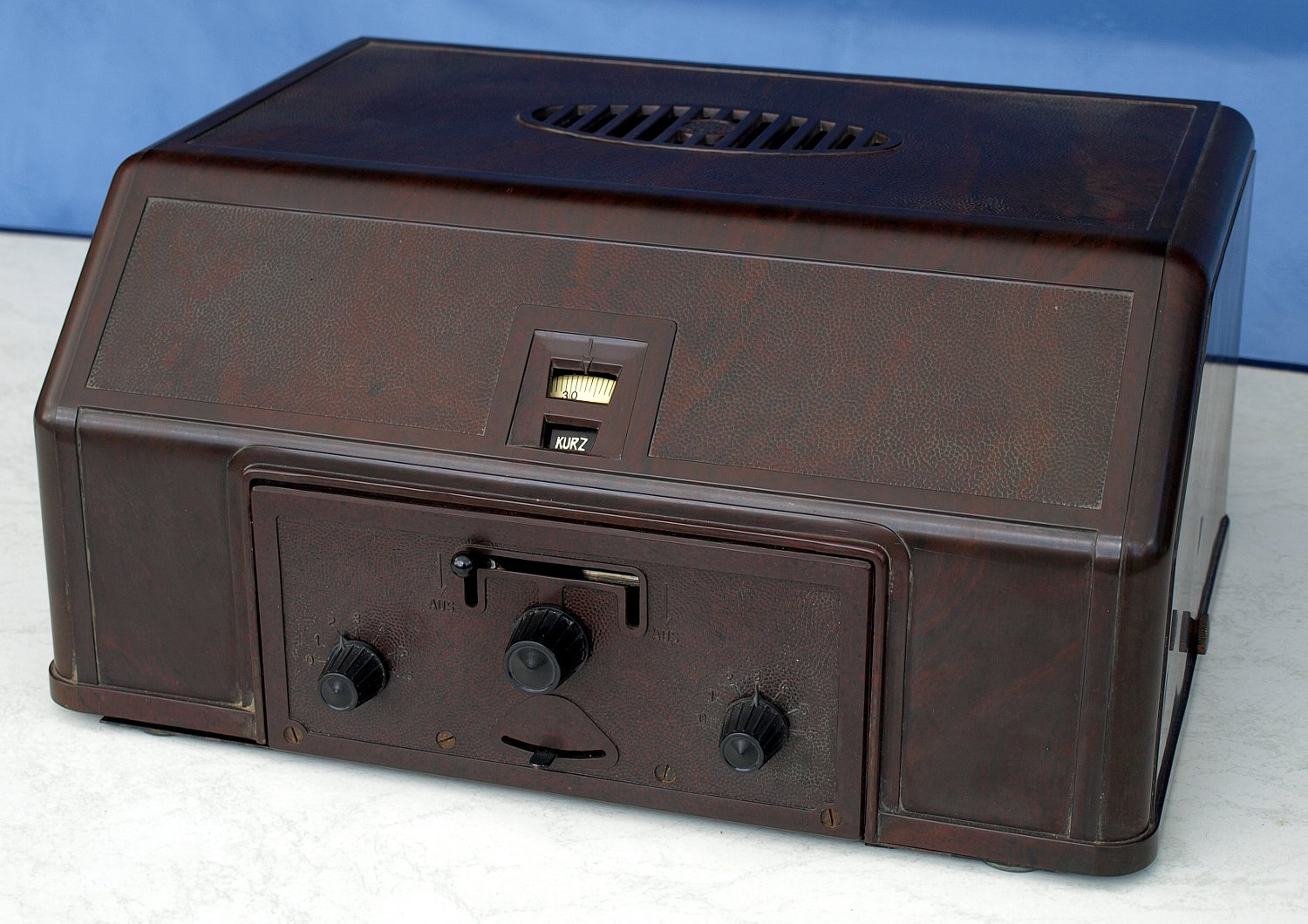 Saba Type S35W "The Winner" Built 1930 Radio